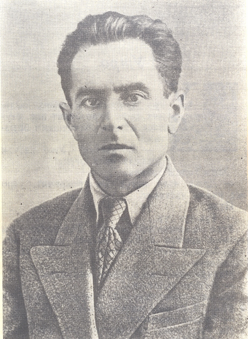 Shogencukov Ali